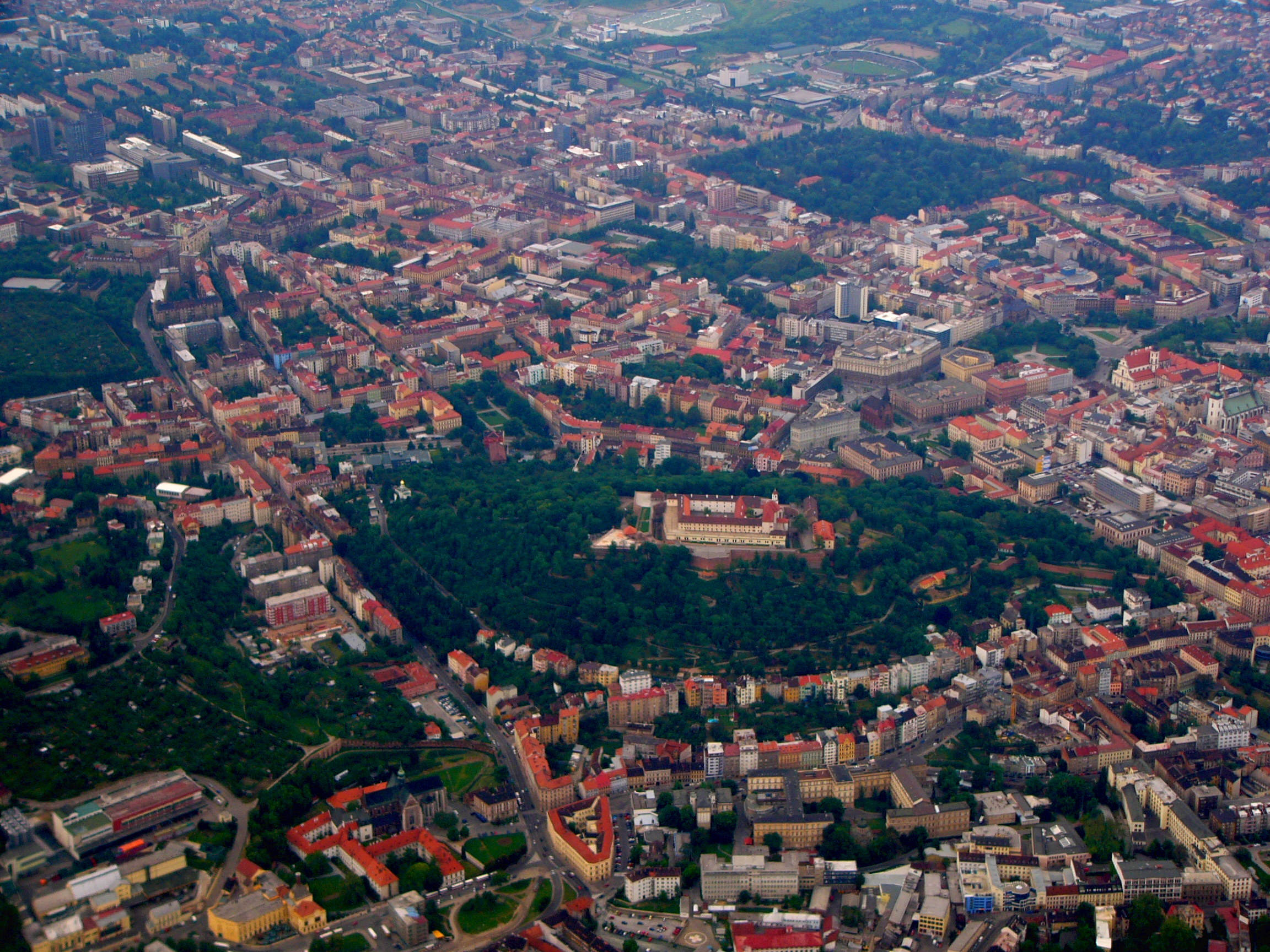 aerial photo of Špilberk Castle in Brno (Czech Republic).